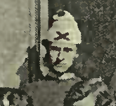 Robert Munro from a picture of the first Scotland Rugby side in 1871.